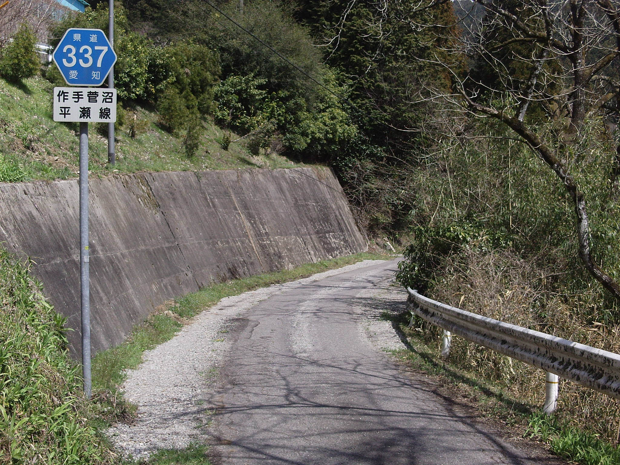 Aichi prefectural road No.337 in Hirasecho, Toyota, Aichi.